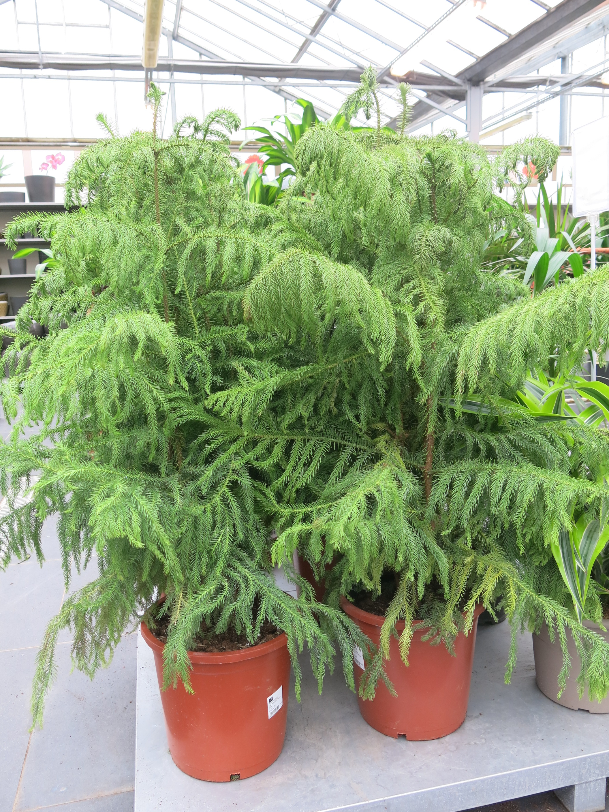 Araucaria heterophylla in a garden centre. Identified by its commercial botanic label.